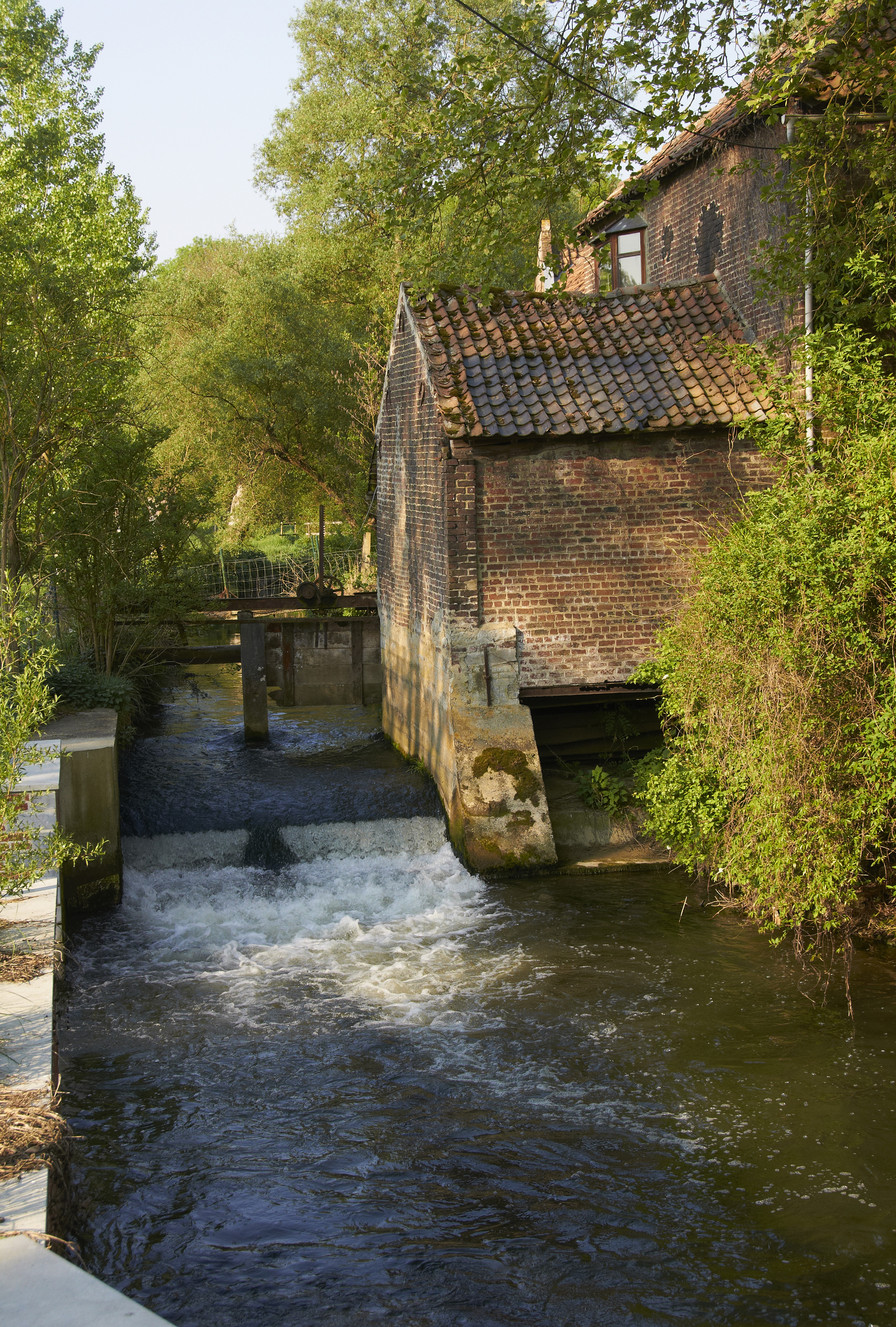 The river Lane in Terlanen, Belgium with a water mill